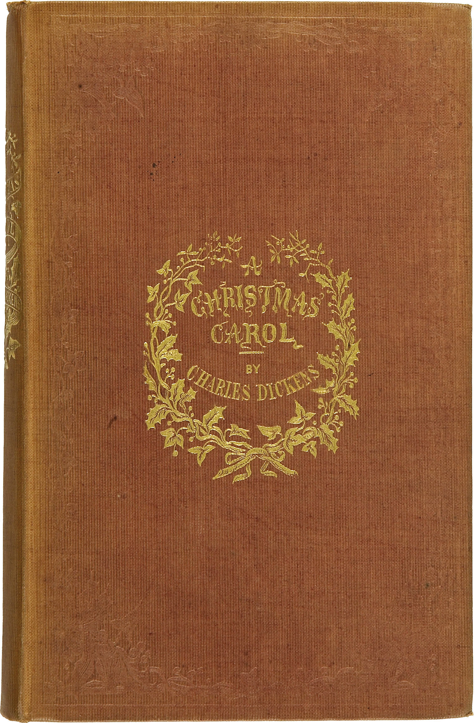 Charles Dickens: A Christmas Carol. In Prose. Being a Ghost Story of Christmas. With Illustrations by John Leech. London: Chapman & Hall, 1843. First edition. Original publisher's cinnamon vertically-ribbed cloth. Sold for: $33,460.00 (Jun 3, 2008)